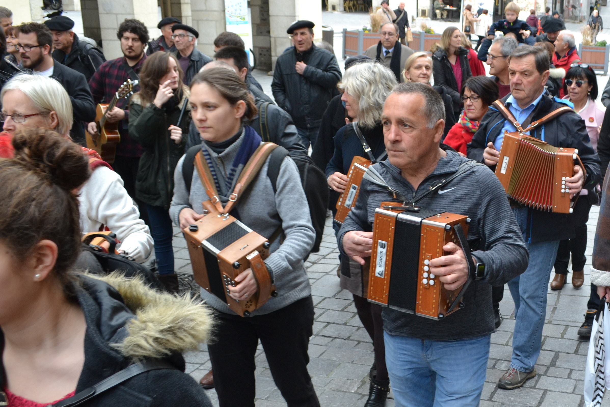 "Bal en vila" on 2016 march, 29th, which gathered in Pau around ten traditional music school from Bearn and neighbourhood.